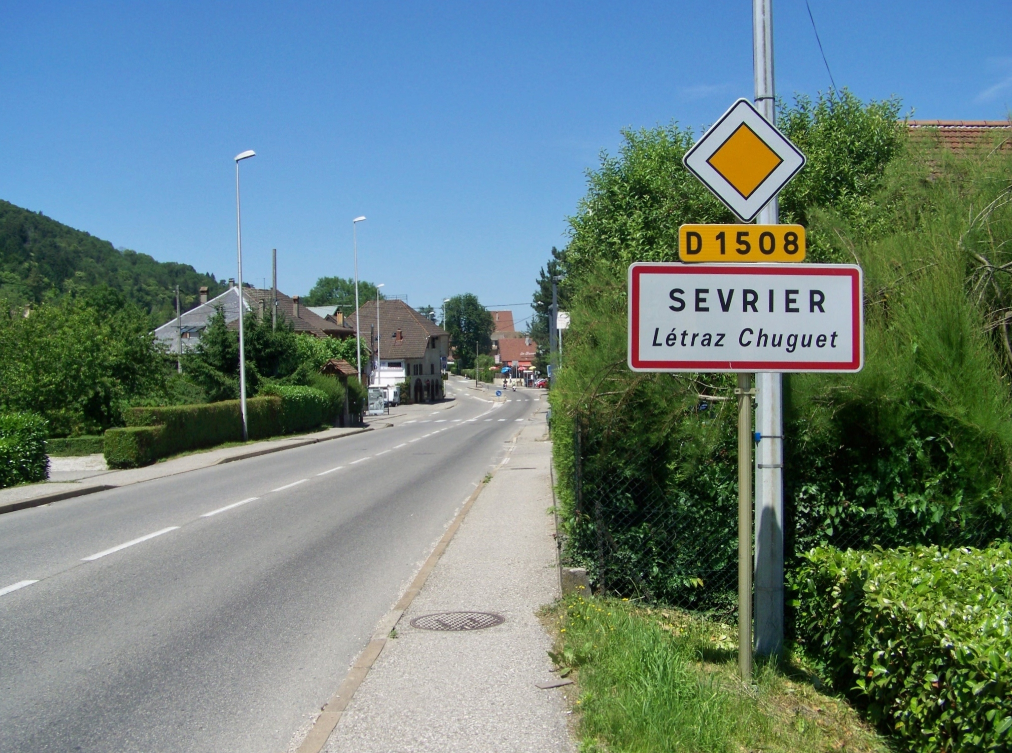 Sign of Létraz Chuguet hamlet, in French commune of Sevrier near Annecy in Haute-Savoie.